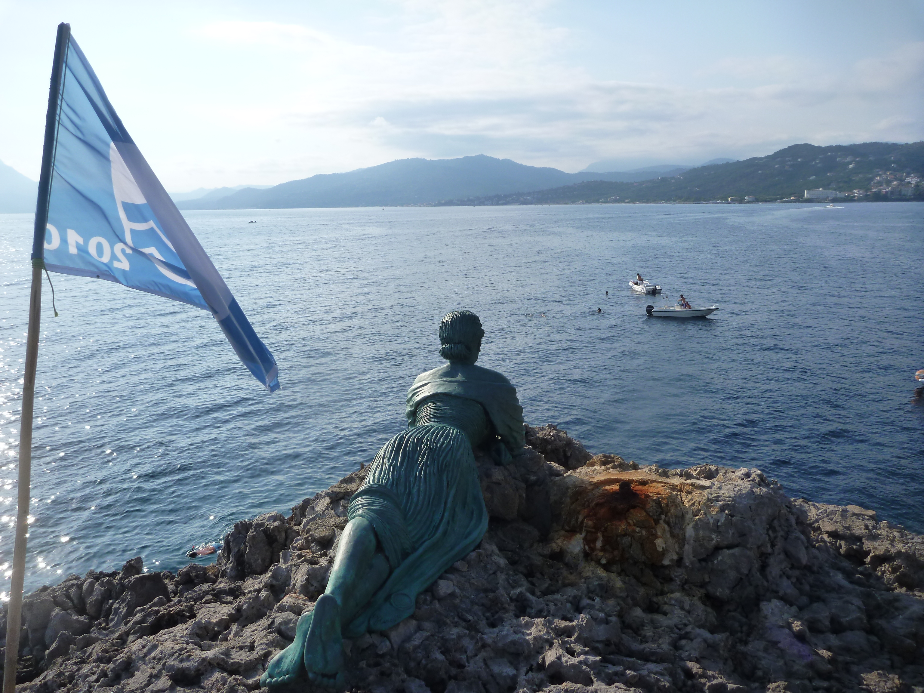 A view from Scialandro cliff-rock - upon which it's a bronze statue of famous "Spigolatrice di Sapri" (Sapri's gleaner)